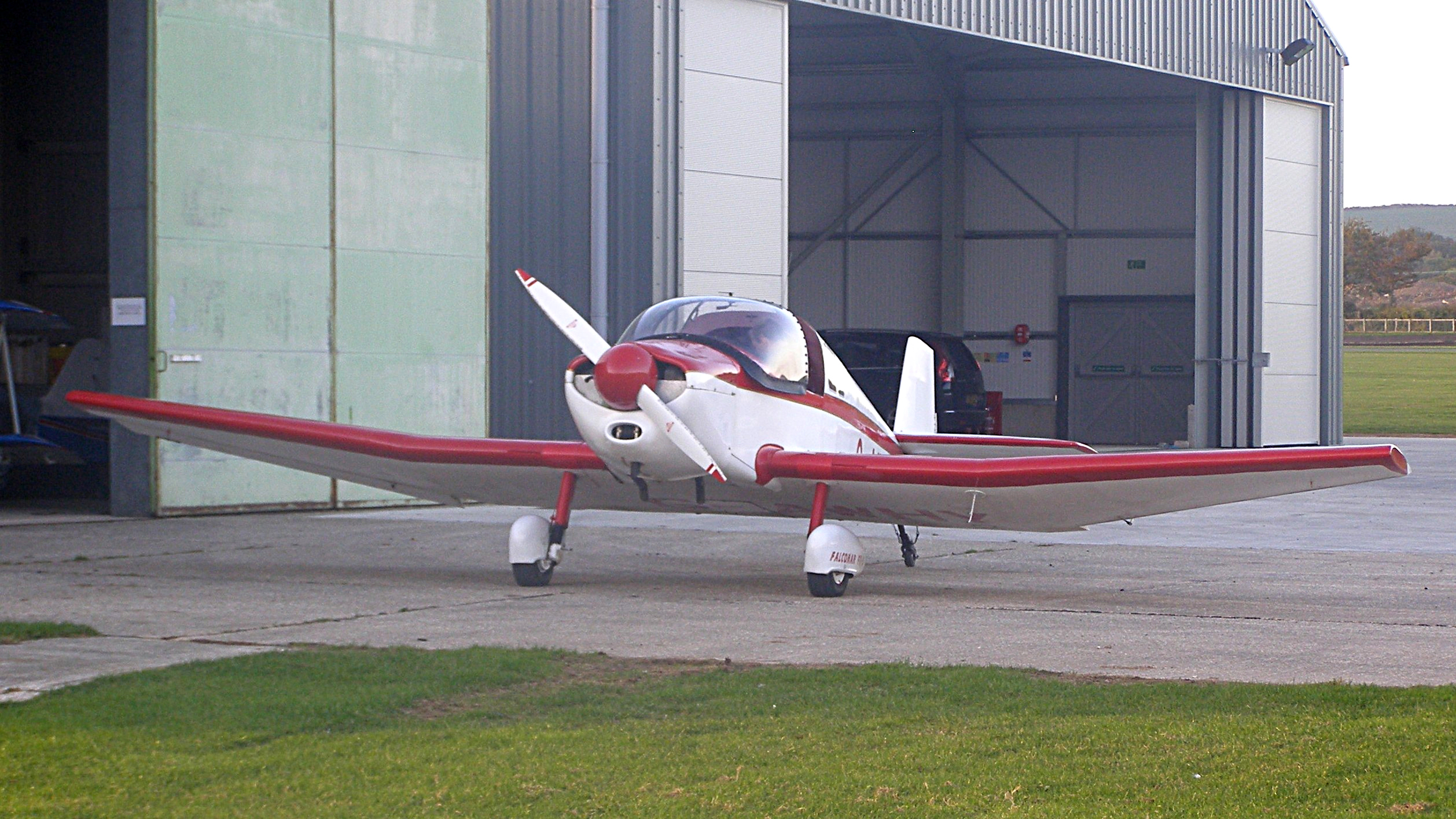 A Falconar F-11-3 light aircraft registered in the United Kingdom as G-AWHY. At Goodwood Aerodrome, Sussex, England in 2010. Homebuilt in the United Kingdom in 1995 with plans from Falconar in Canada the design was based on the Jodel D11.